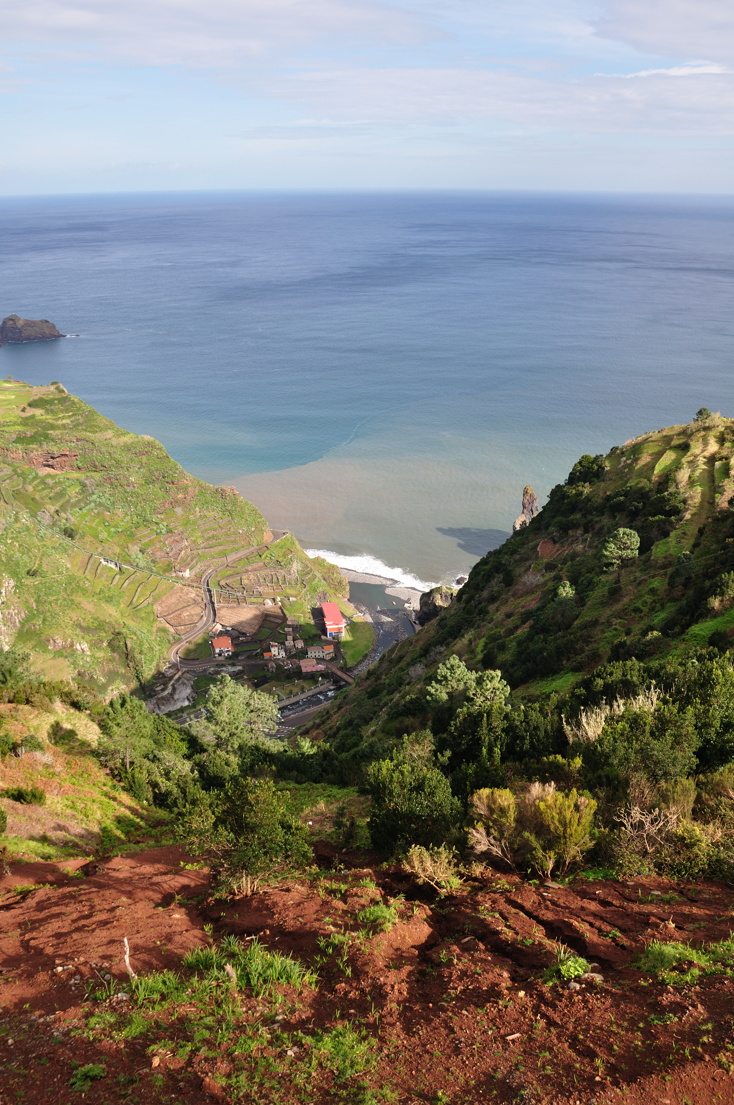 Portugal, Ribeira da Janela in the community of Porto Moniz